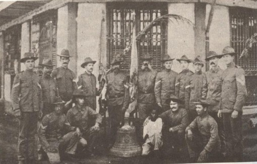 Extant photograph of some American survivors with their bell of Balangiga. This photo was taken in Calbayog, Samar, sometime in April 1902.